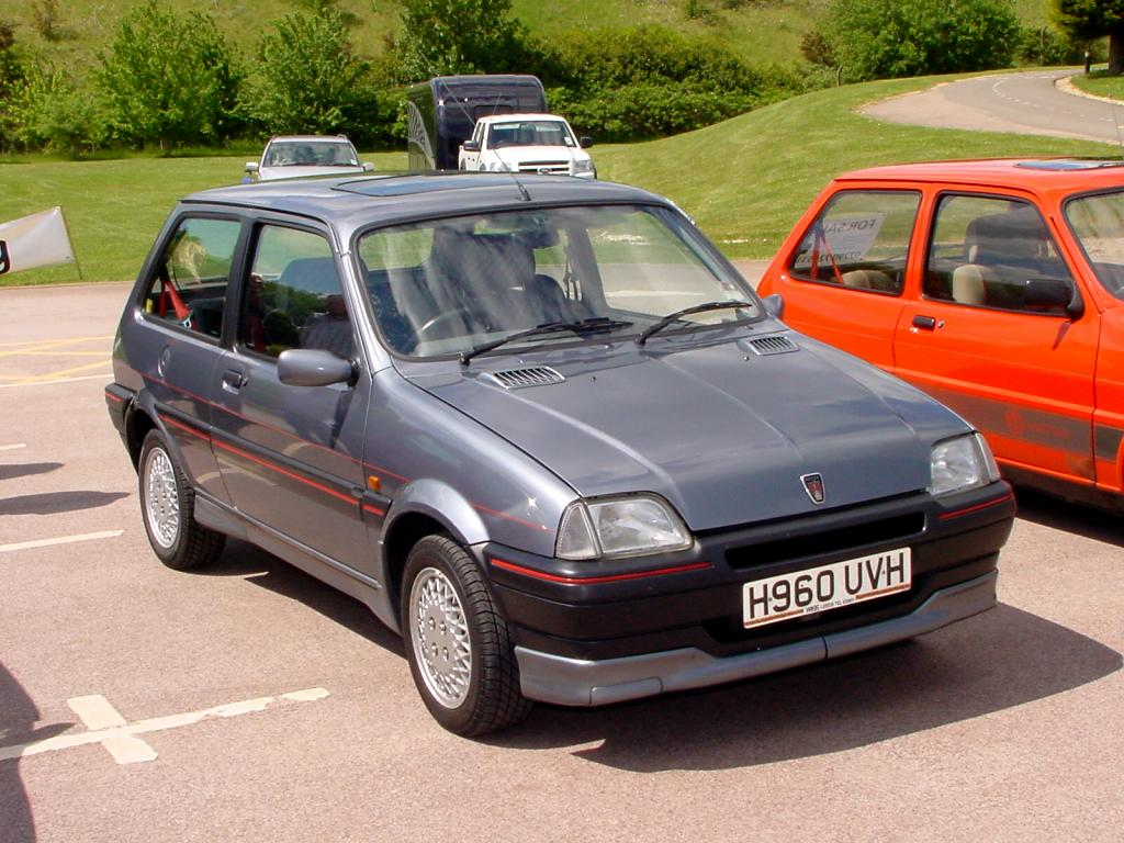 August 1990 grey Rover Metro 1.4 GTi. Metro 30th Anniversary at Heritage Motor Centre, Gaydon, UK